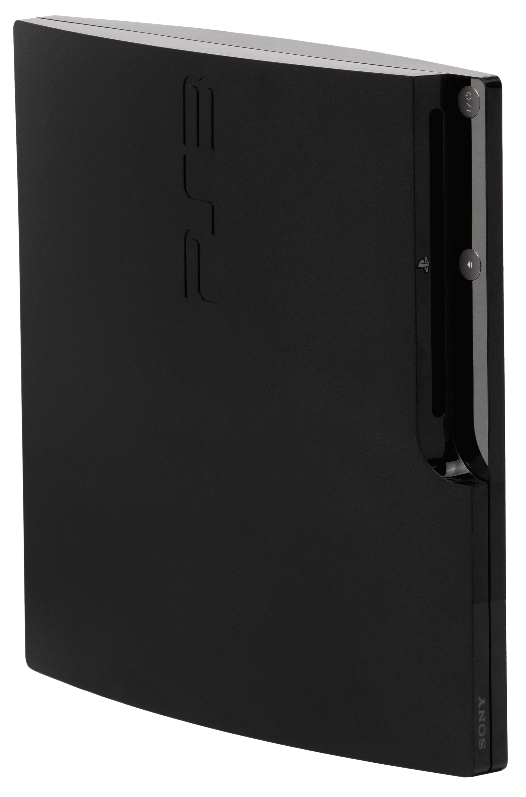 The Sony PlayStation 3 (PS3) "Slim" console shown in vertical orientation. Shown in a vertical orientation without a vertical stand. This is the JPG version.